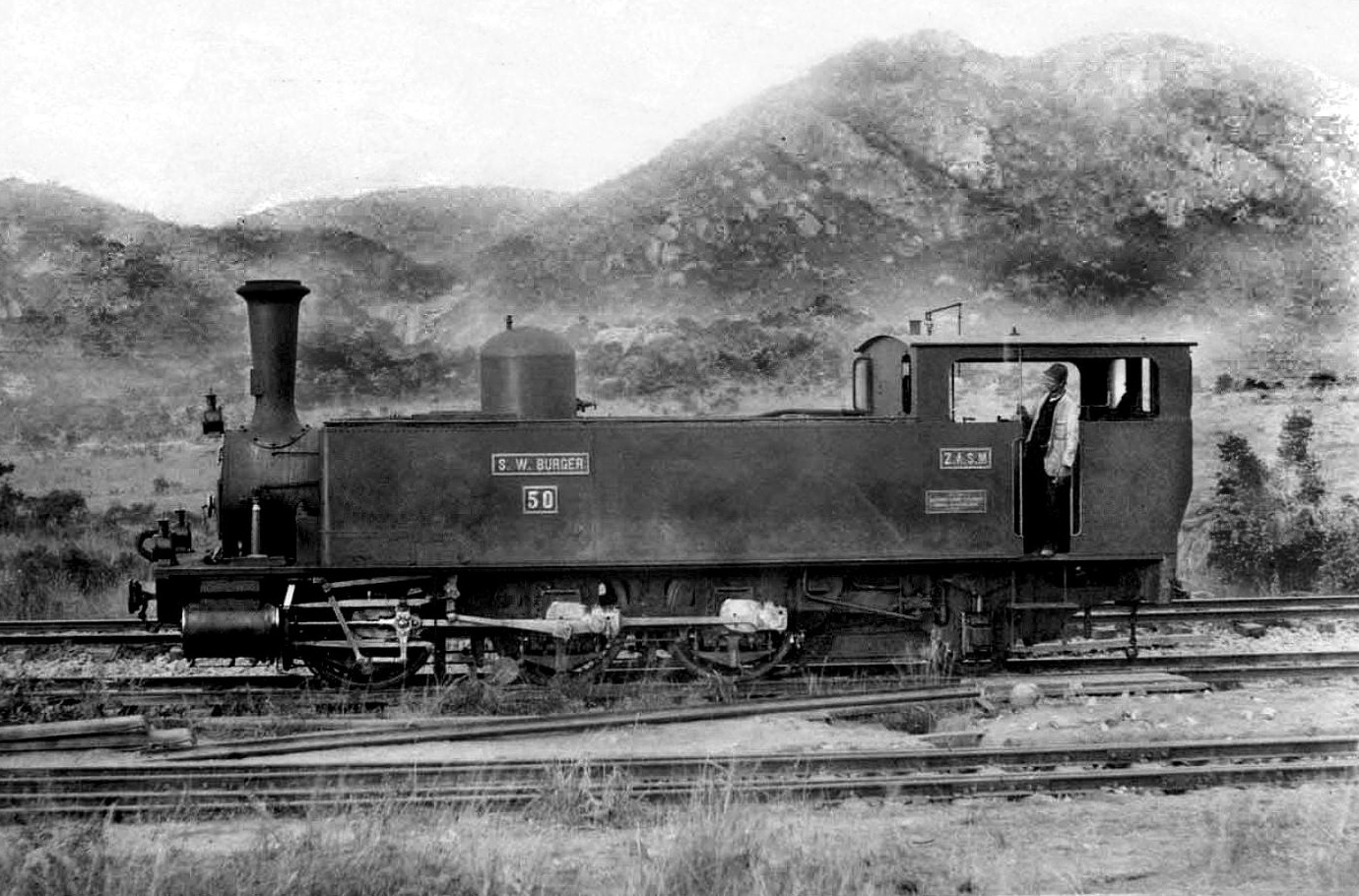 NZASM 40 Tonner (0-6-2T) no. 50 "S.W. Burger" at Komatipoort